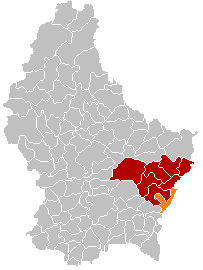 Own edit of Kanton GrevenmacherLocatie.png